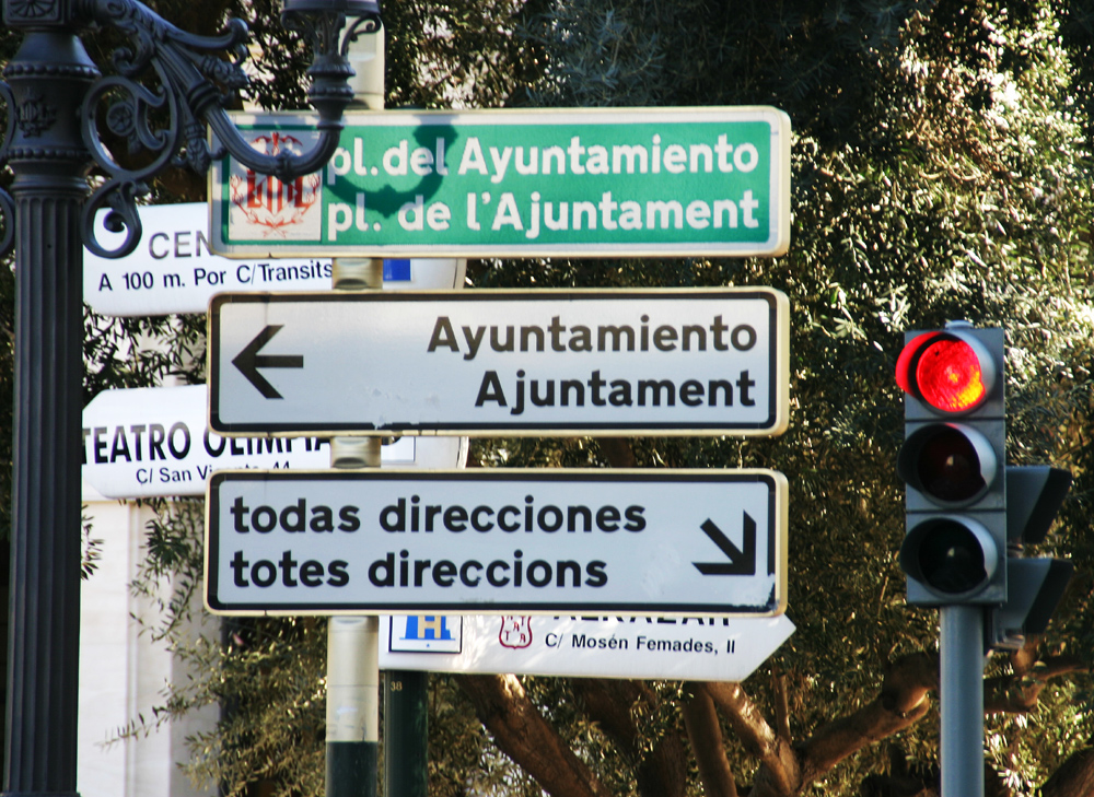 bilingual traffic sign (spanisch/valencian) at Valencia, Spain